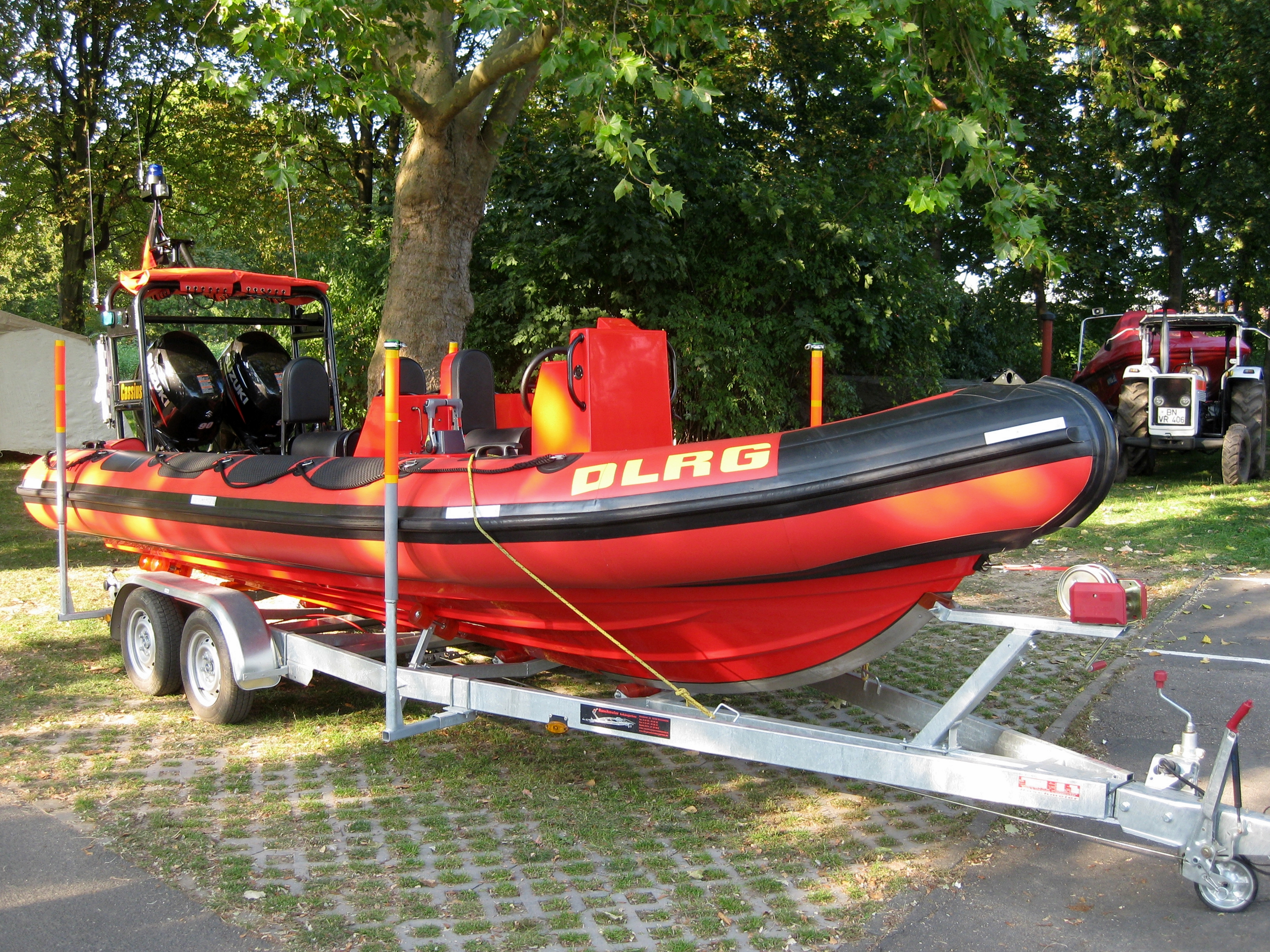 Germany, Bonn, Limperich: motor lifeboat Cassius near the bank of the Rhine. Manufacturer: Ribcraft, UK